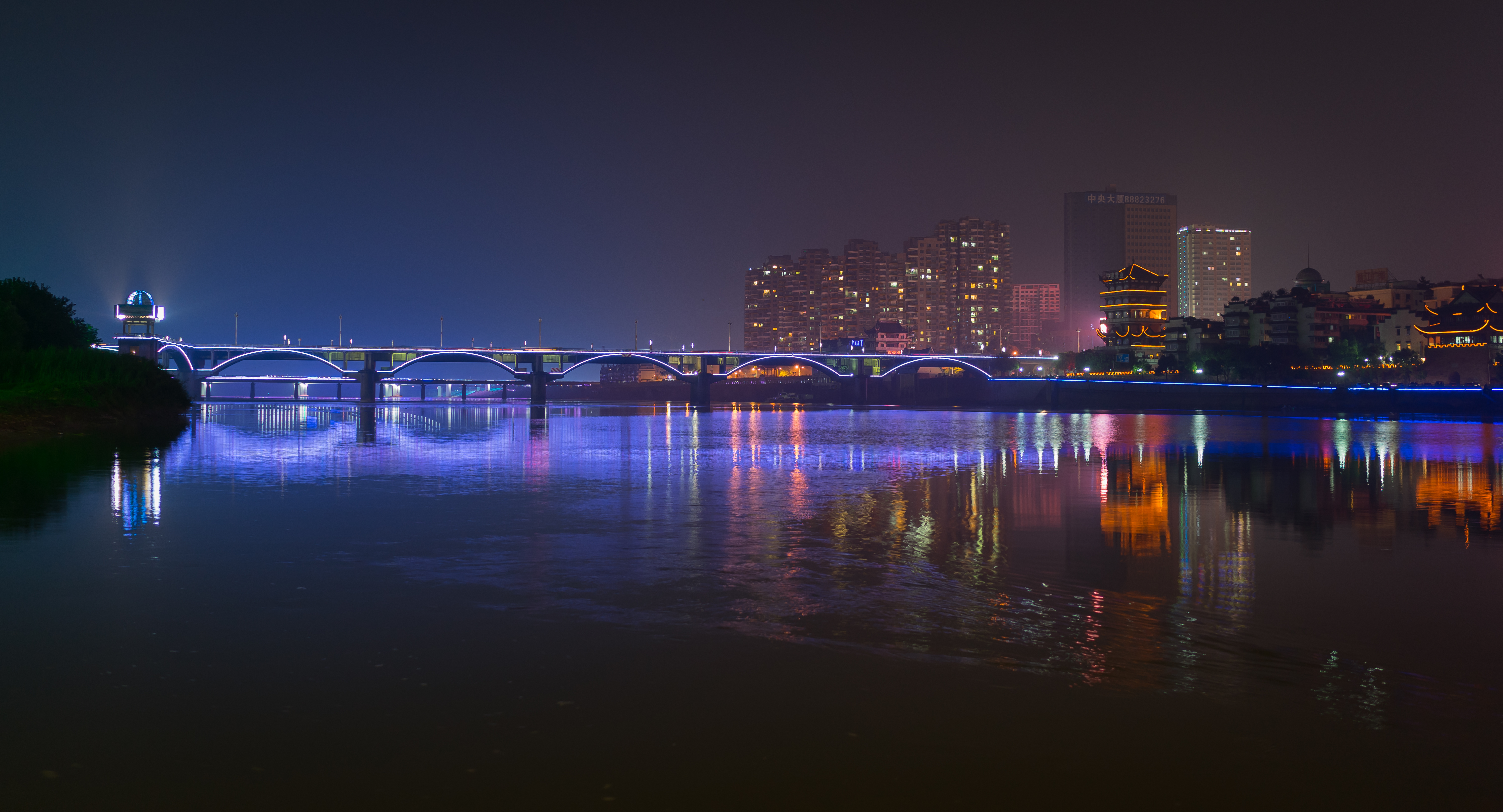 Lanxi Skyline (Contributed by PromoteMyCity)